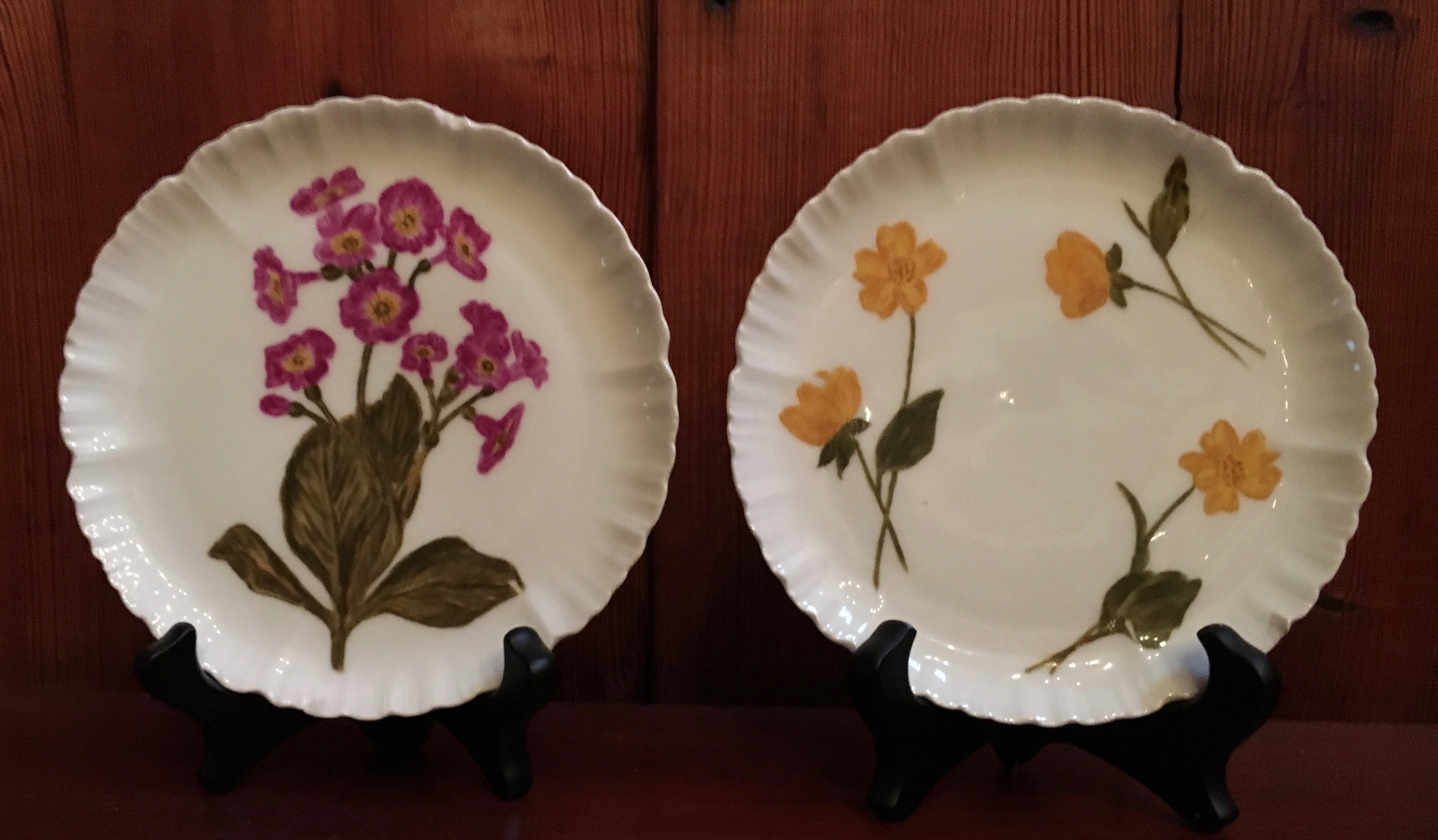 Reverse–“MSS, 1891”